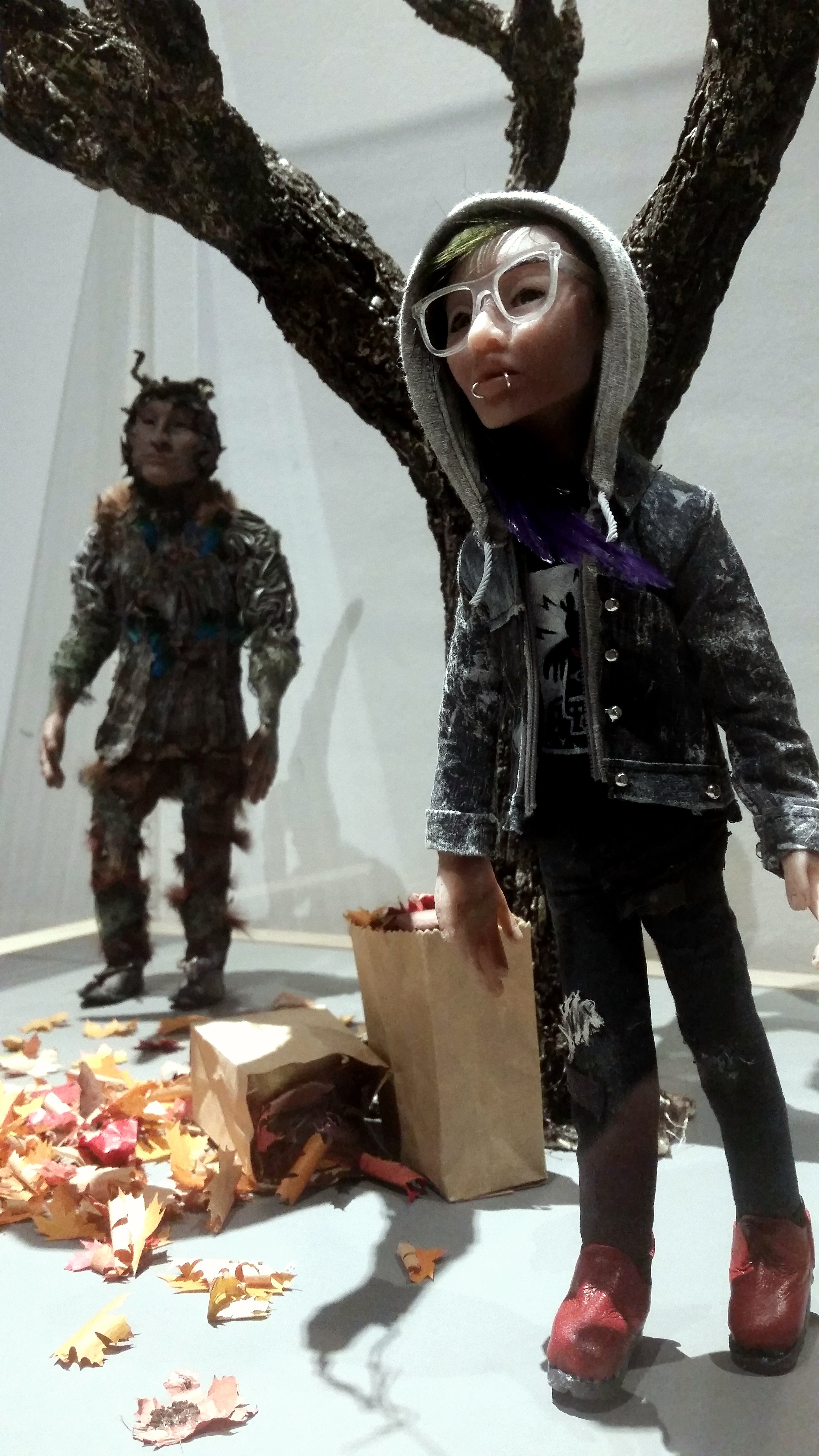 Art at the Winnipeg Art Gallery in Winnipeg, Manitoba, Canada. Artist: Amanda Strong Piece: Biidaaban